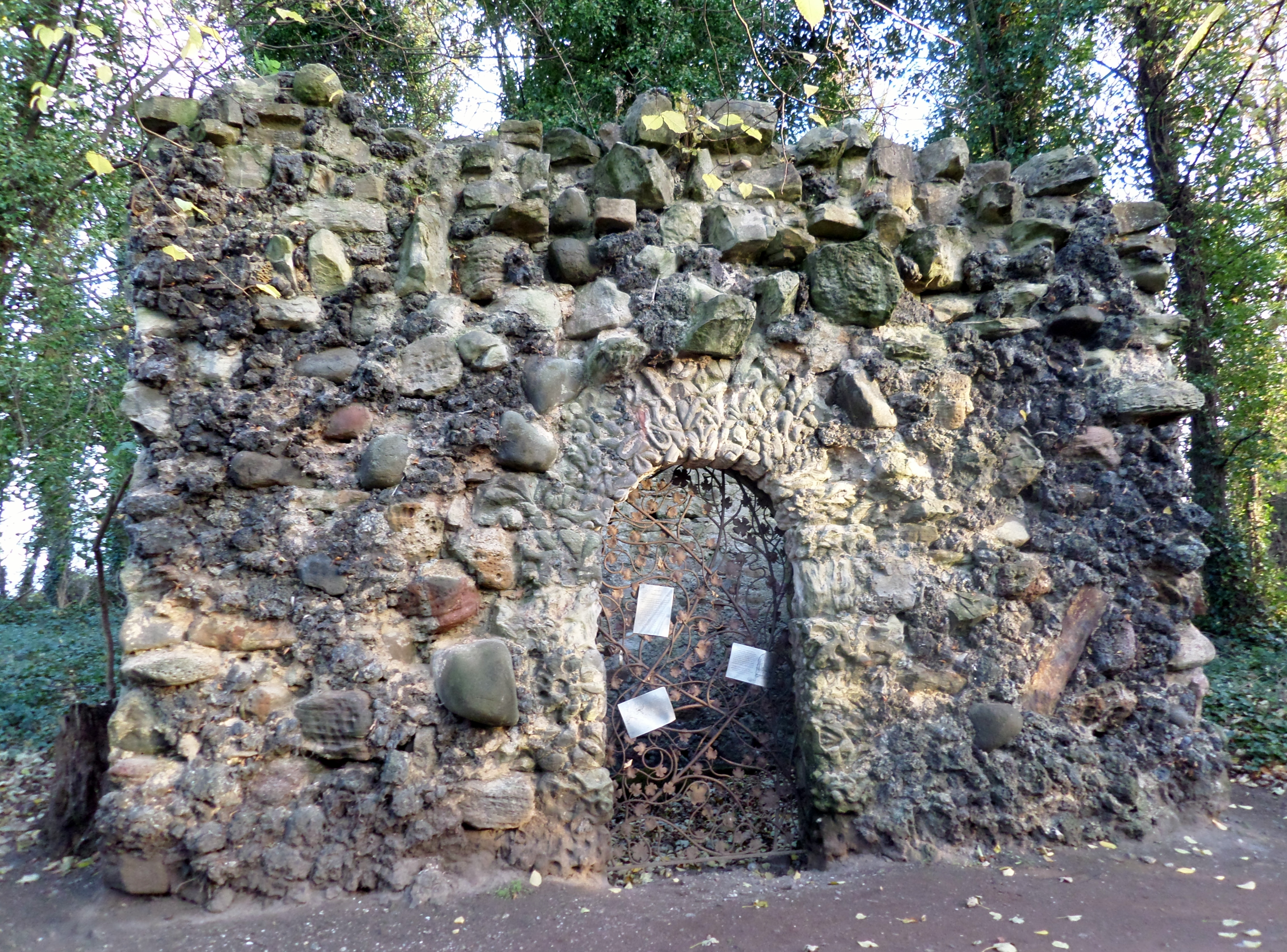 Newhailes Shell Grotto, frontage, Musselburgh, East Lothian. Some lava stones embedded still.